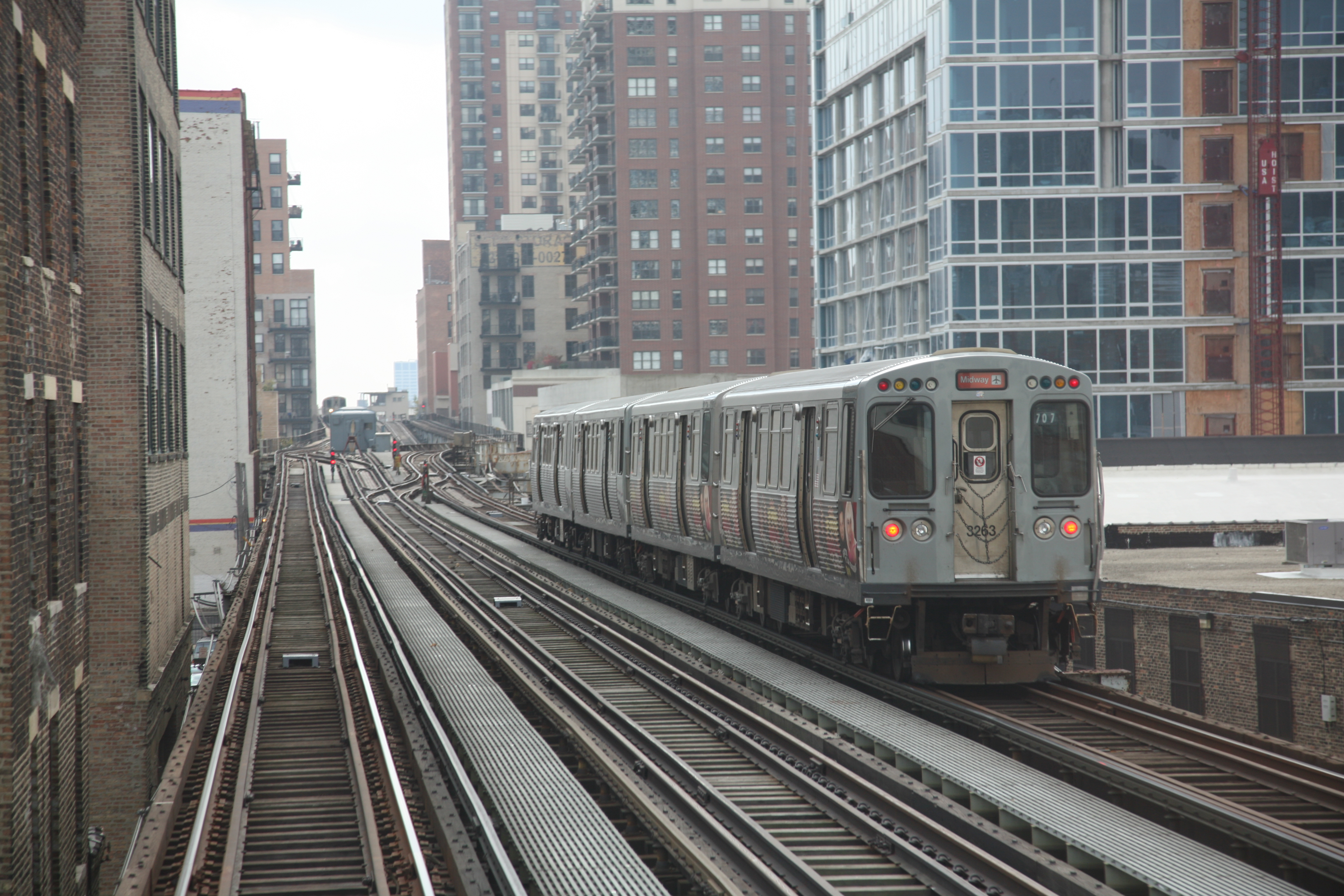 Orange Line train on the Chicago 'L' on the way to Midway Airport.